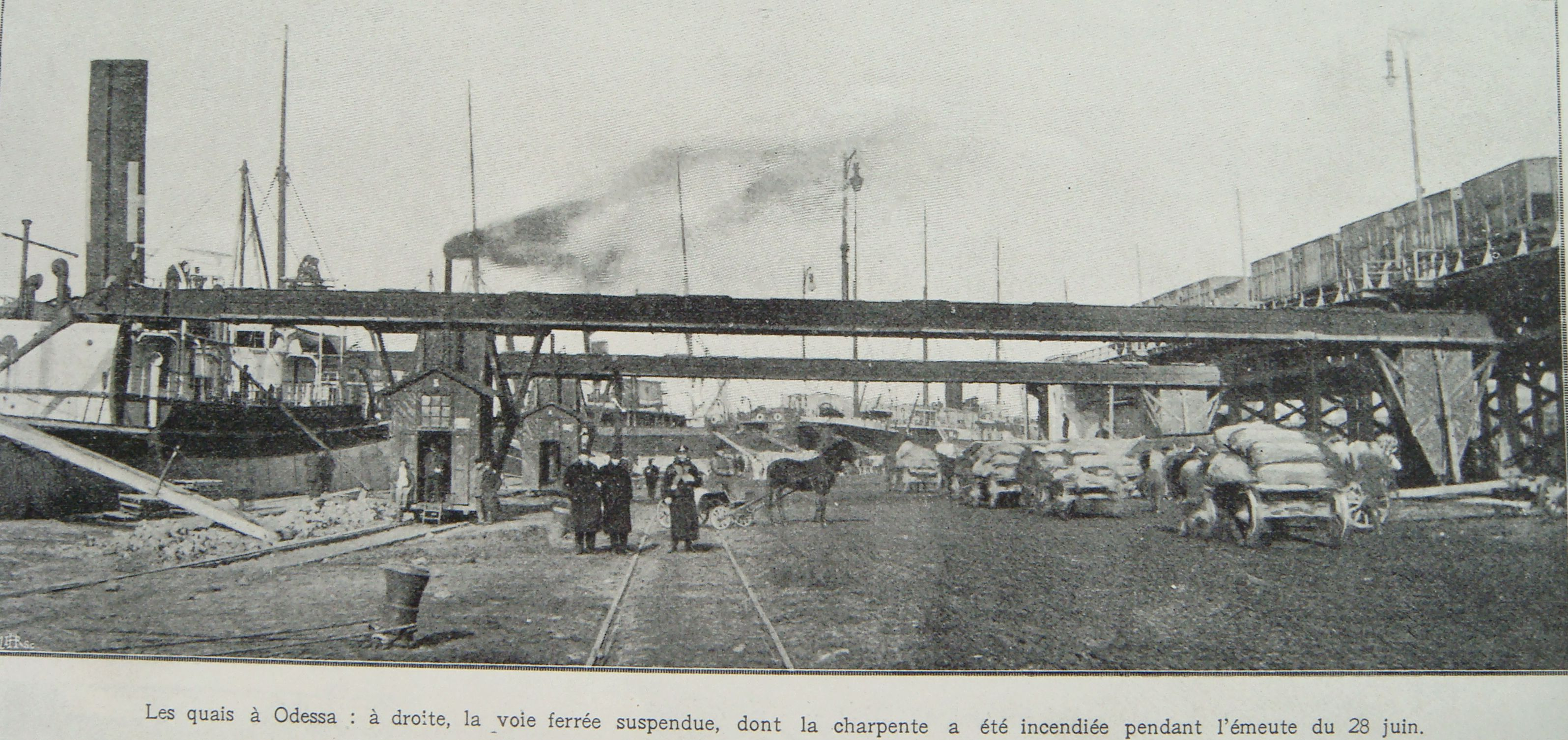 Odessa port. This key and all it's infrustructure was complitly destroyed by fire started by mobs during unrests in the port on June 28th 1905